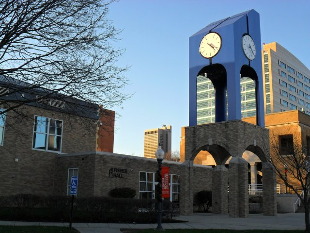 Franklin University Clock Tower, with Fisher Hall and Partial Columbus Skyline in Background. Columbus, Ohio, USA.